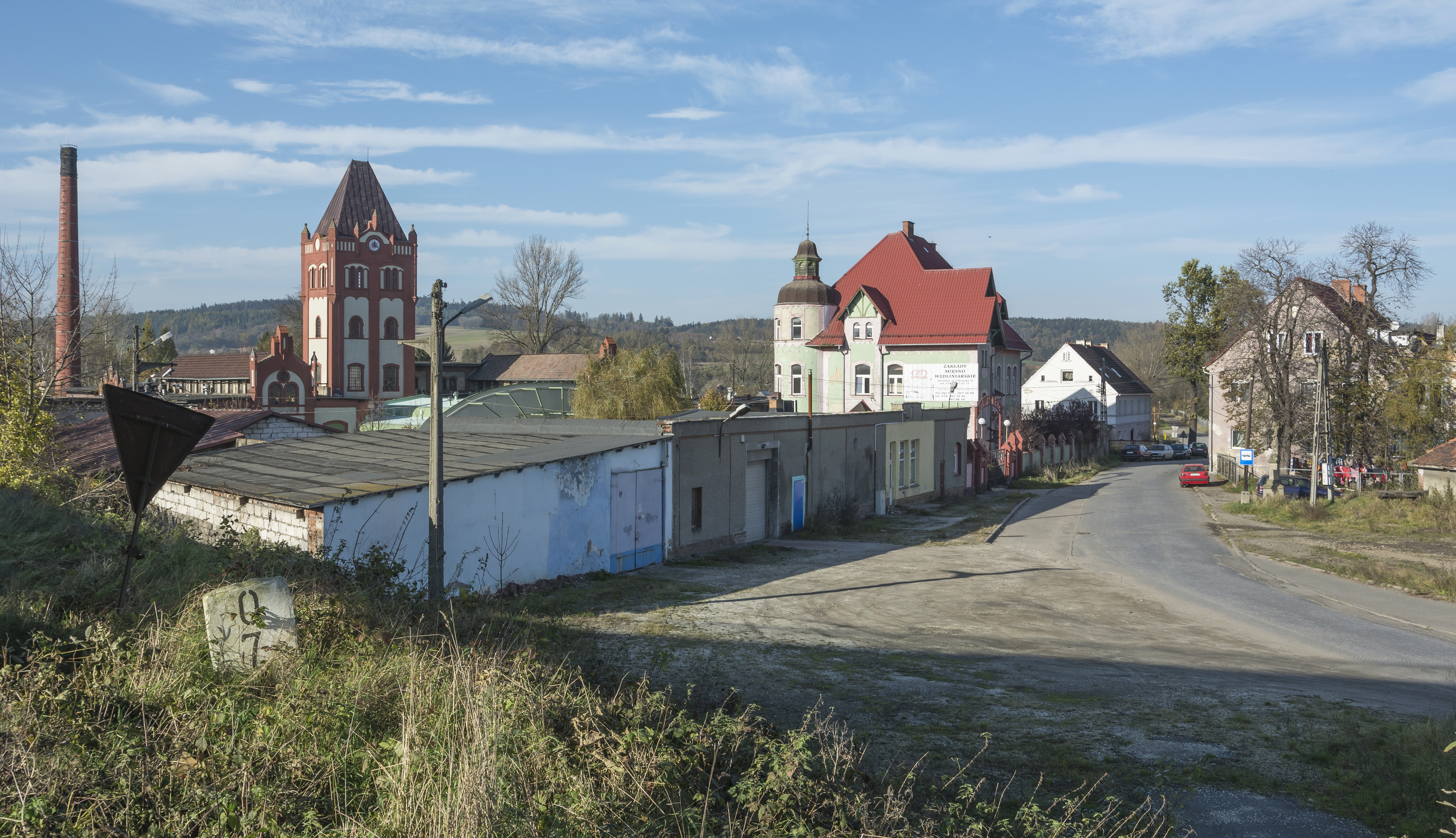 Półwiejska Street in Kłodzko, Cees-Pol